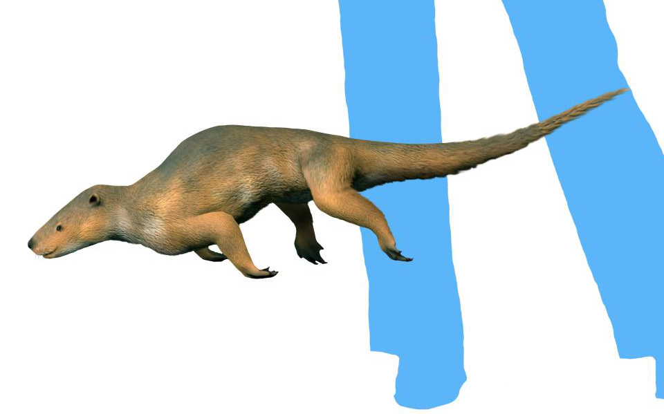 Restoration of Palaeosinopa didelphoides.